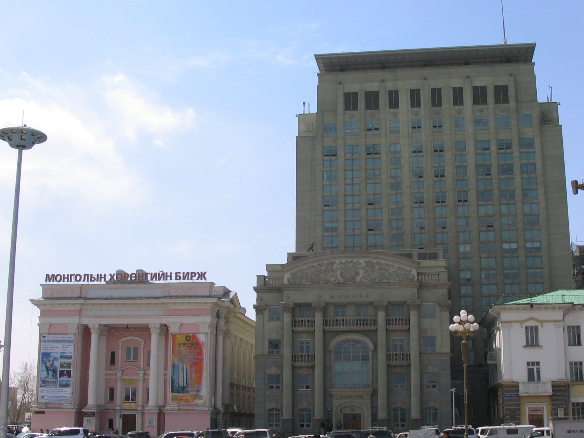 The Mongolian stock exchange (left, 1950s) and the Bodhi Tower (right, 2004) overlooking the central Sükhbaatar square in Ulaanbaatar, Mongolia.